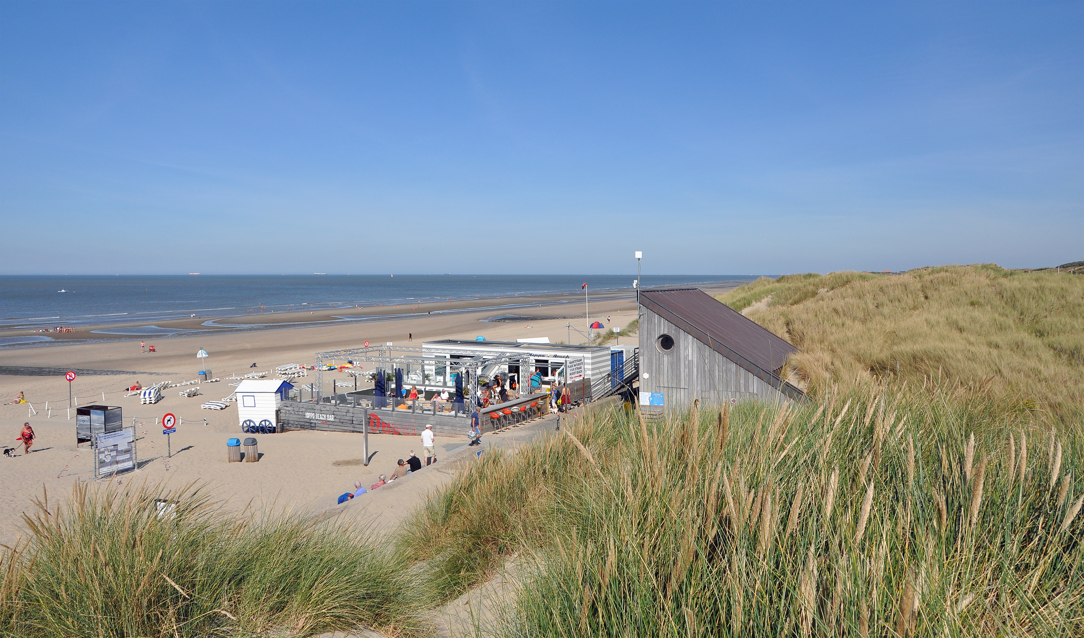 Bredene (Belgium): the beach